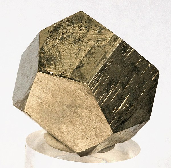 Pyrite Locality: Rio Marina, Elba Island, Livorno Province, Tuscany, Italy (Locality at ) Size: 3.2 x 3.2 x 2.9 cm. A sharp, textbook pyrite pyritohedron from the ancient iron mines at Rio Marina, Elba Island. The brassy crystal has mirror-bright faces. Complete-all-around, the contact is at the base and is out of sight. A classic and excellent pyrite crystal from this historic locale and the Jaime Bird Collection.